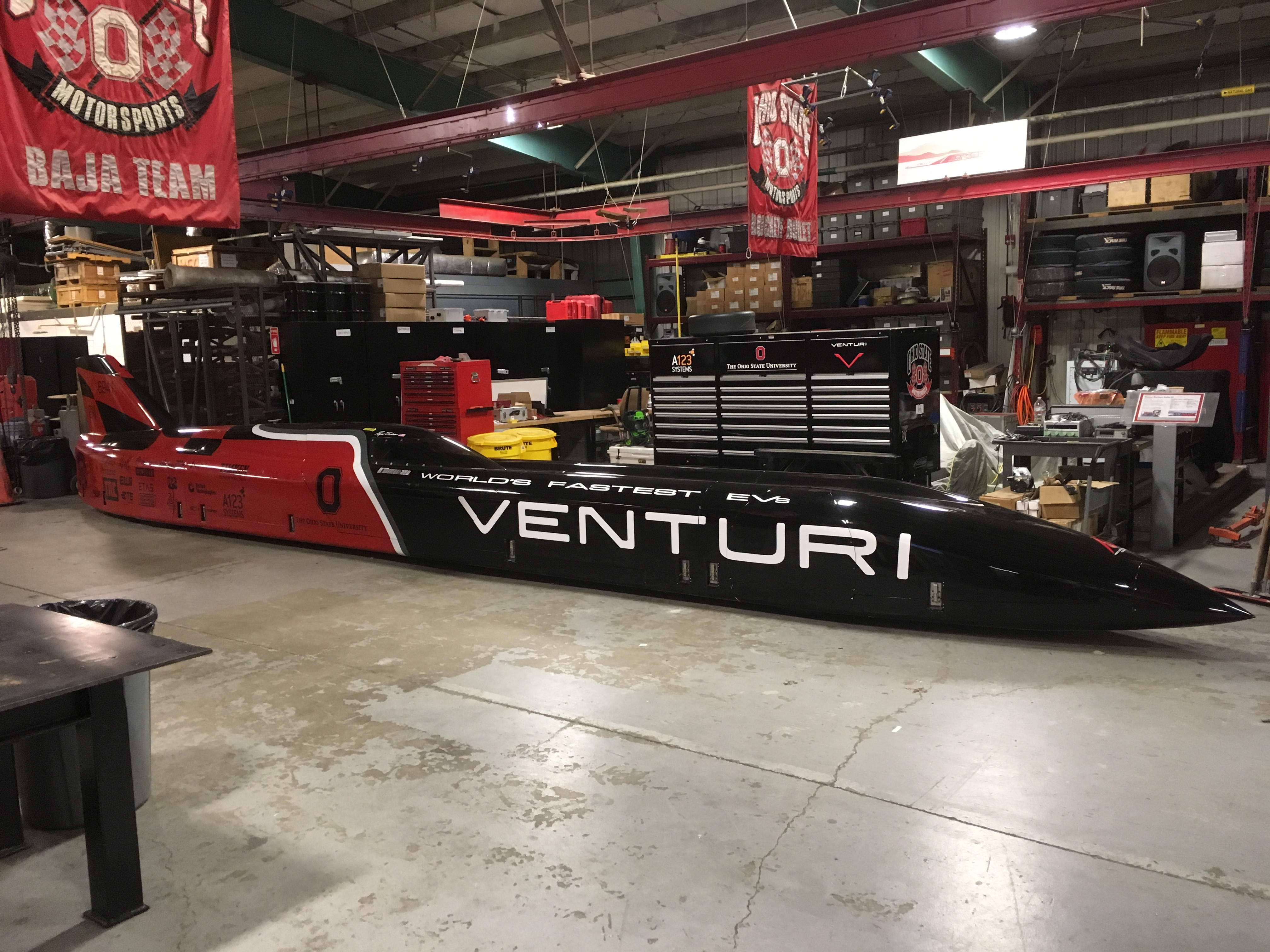 A side view of the Buckeye Bullet 3, at the Center for Automotive Research in February 2017